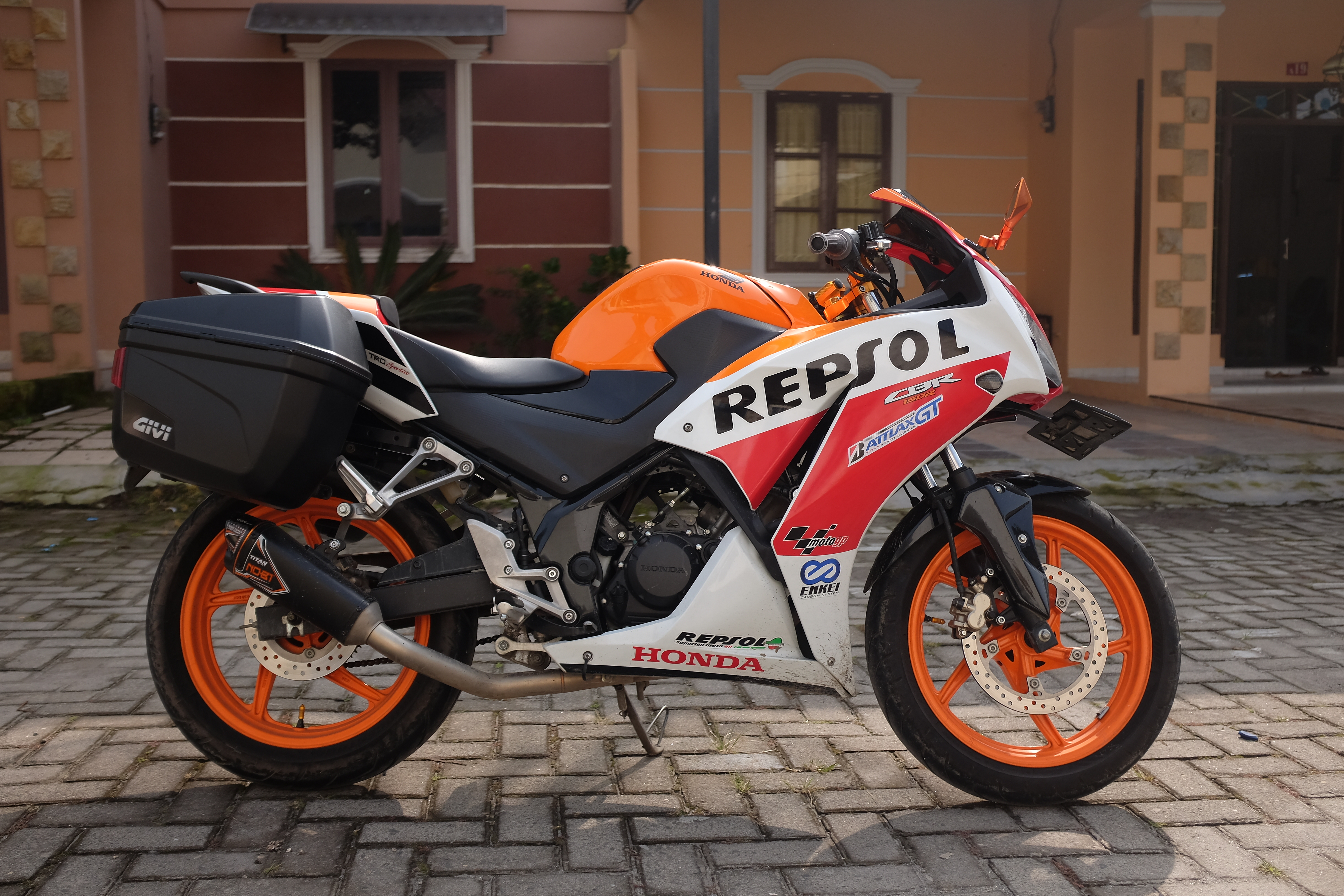 Modified Indonesia's CBR150R Repsol Edition